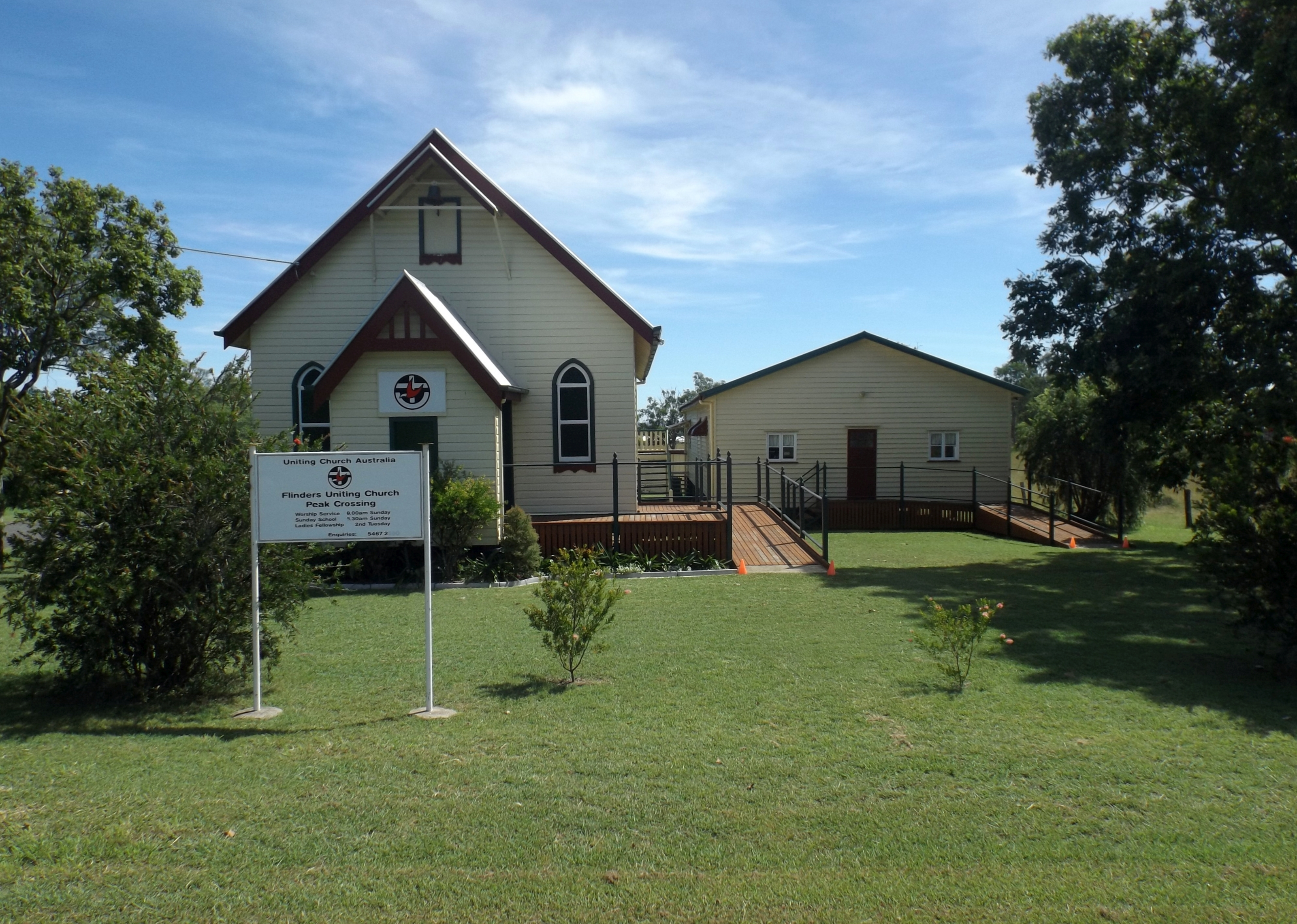 Flinders Uniting Church at Peak Crossing, Scenic Rim Region, Queensland, Australia. Previously a Congregational Church.